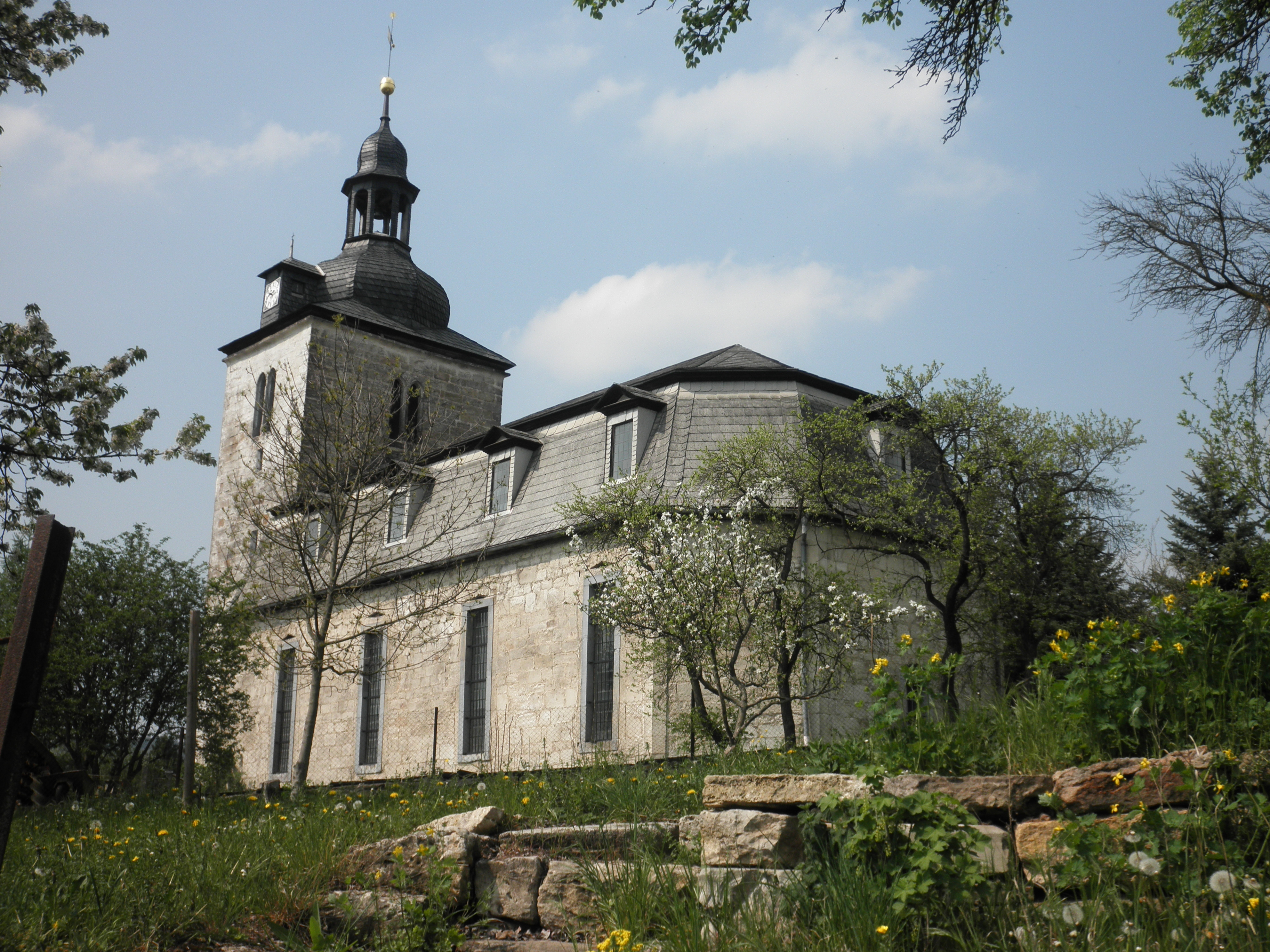 Church in Heilsberg in Thuringia